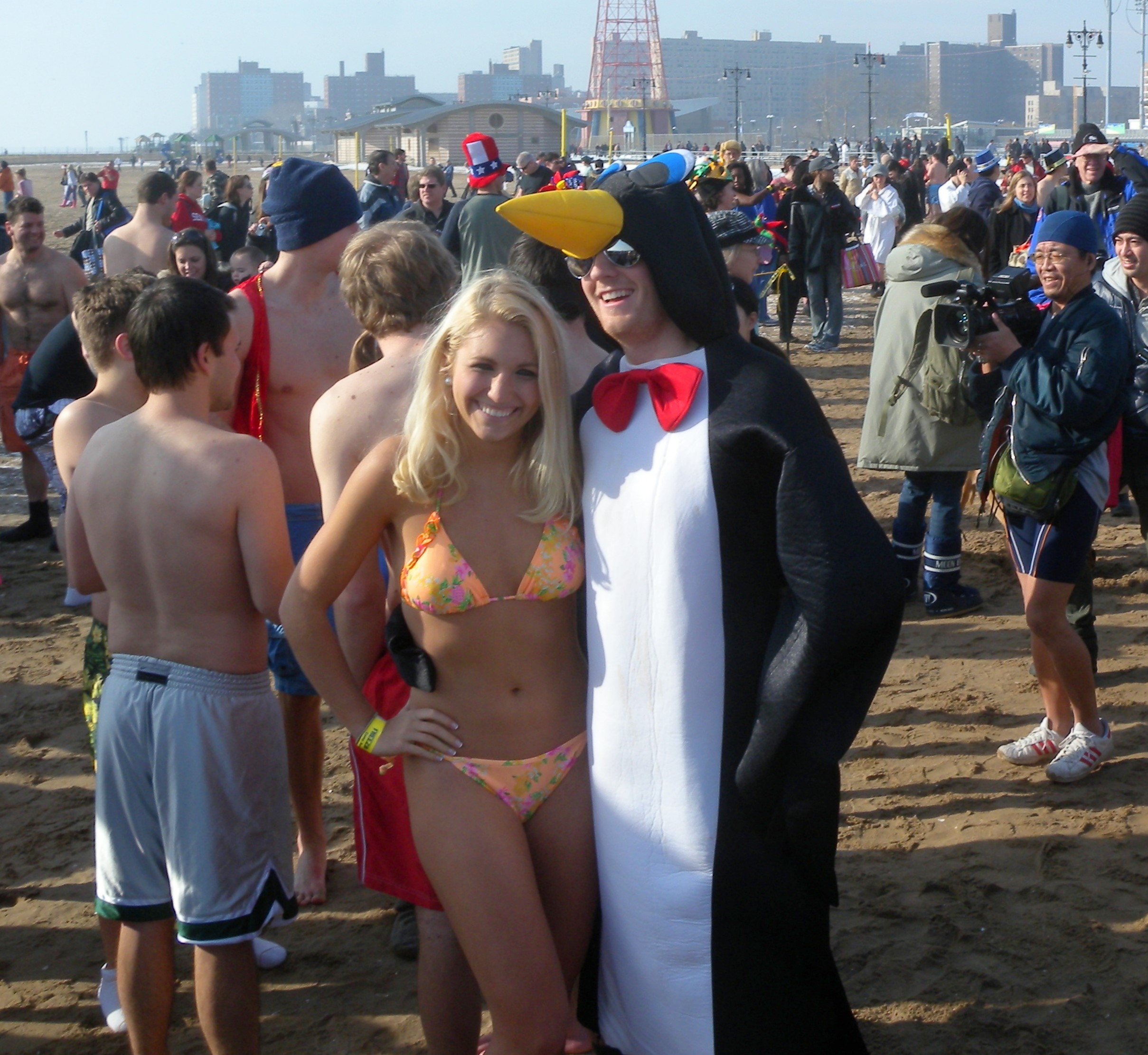 Looking west at penguin and friend on New Years Day.